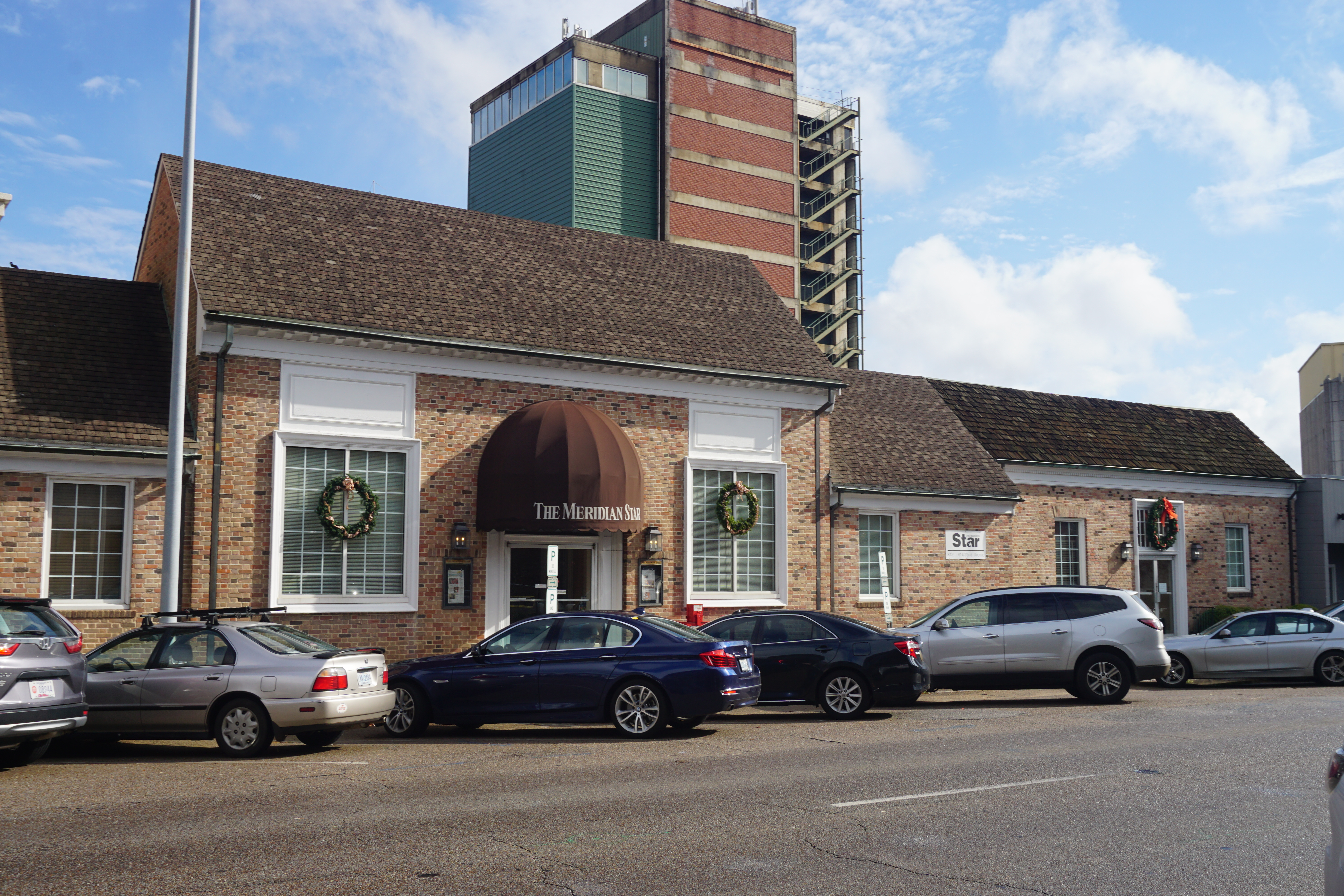 The Meridian Star building in Meridian, Mississippi (United States).